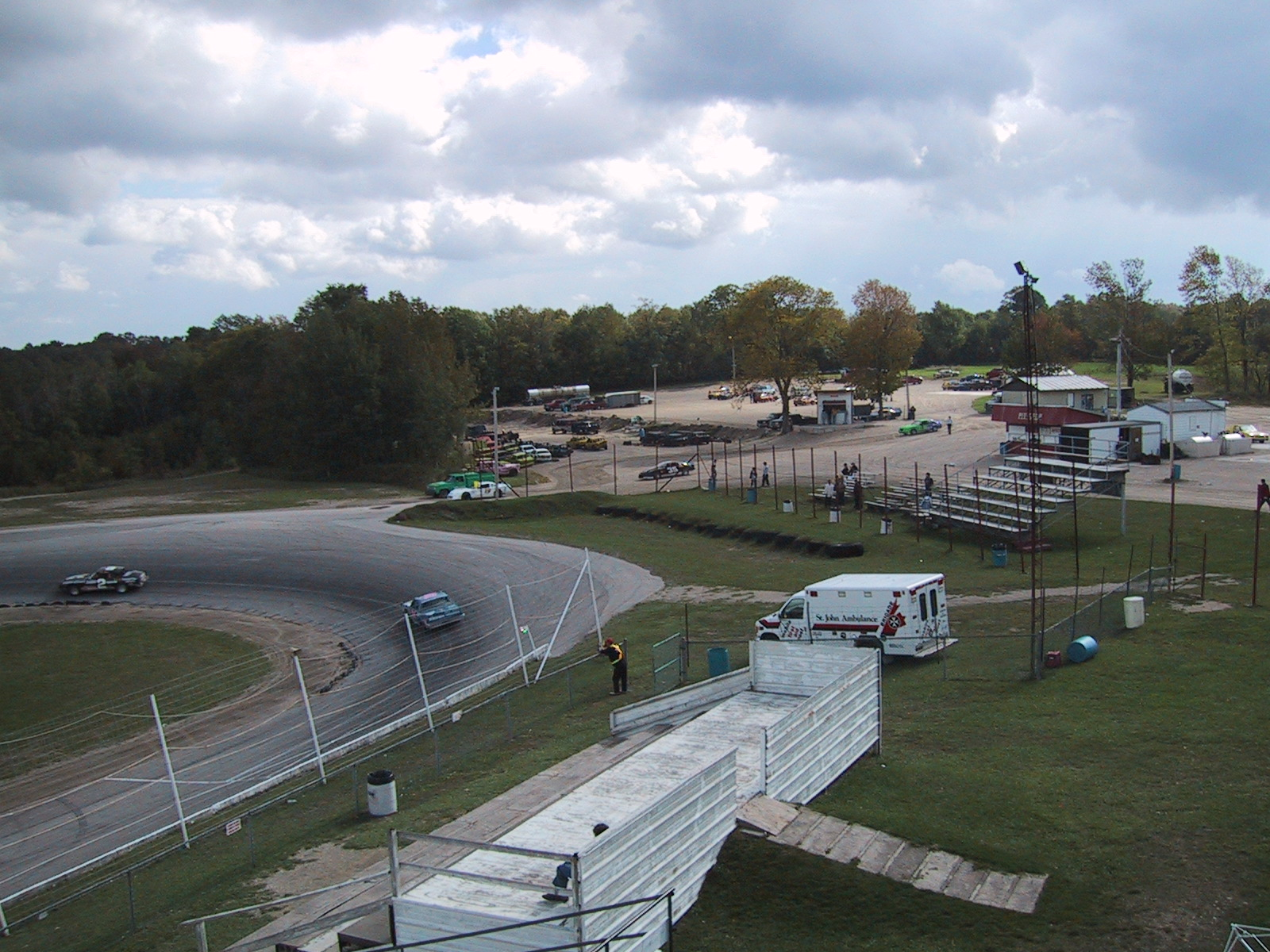 Varney Motor Speedway, Varney Ontario, Canada. Shot from the top of the Grandstand, looking at turn #1 and #2. With a view of the Pits and Pit entrance to track. Shot during early morning Warm-up and testing.